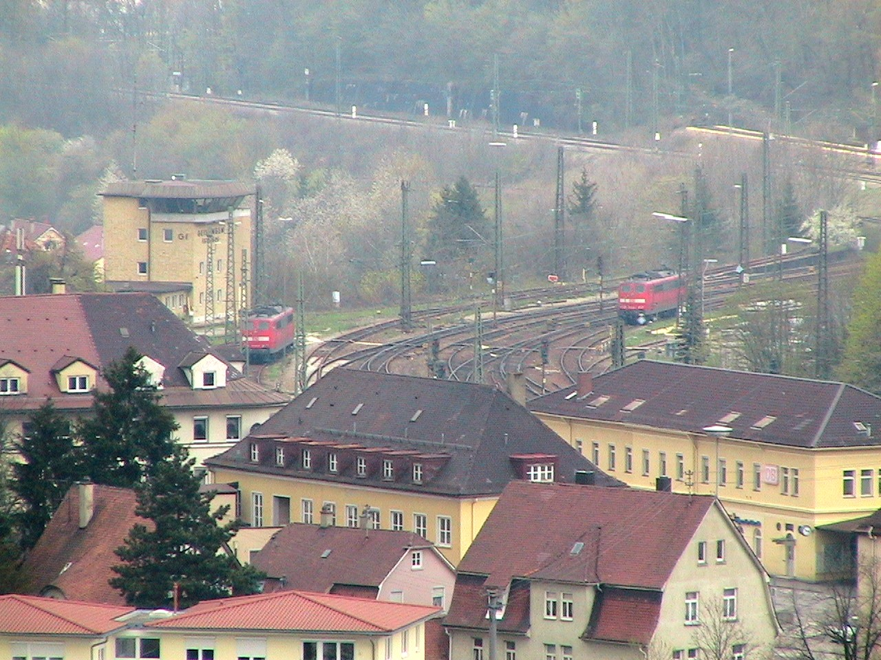 Banking locomotive in the station at Geislingen an der Steige, Baden-Württemberg, Germany, on stand-by to push goods trains up the Geislinger Steige.